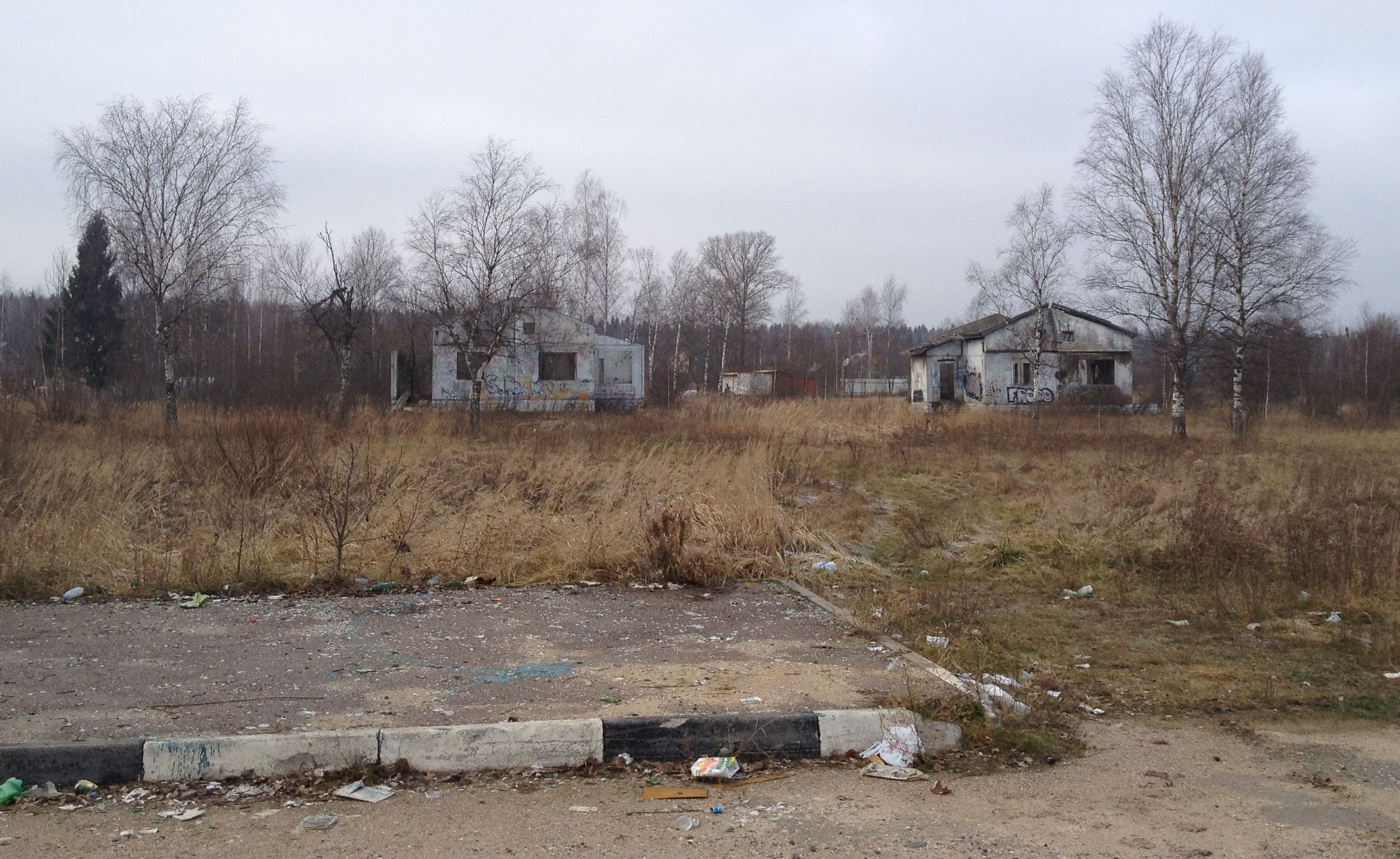 Belskoe (Taldomsky district, Moscow oblast). Two abandoned buildings.